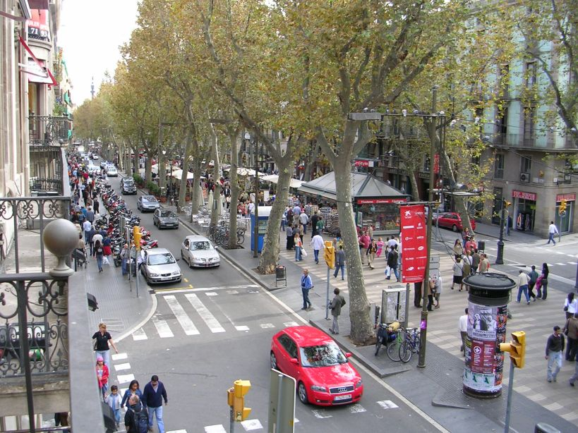 la rambla (tw south)